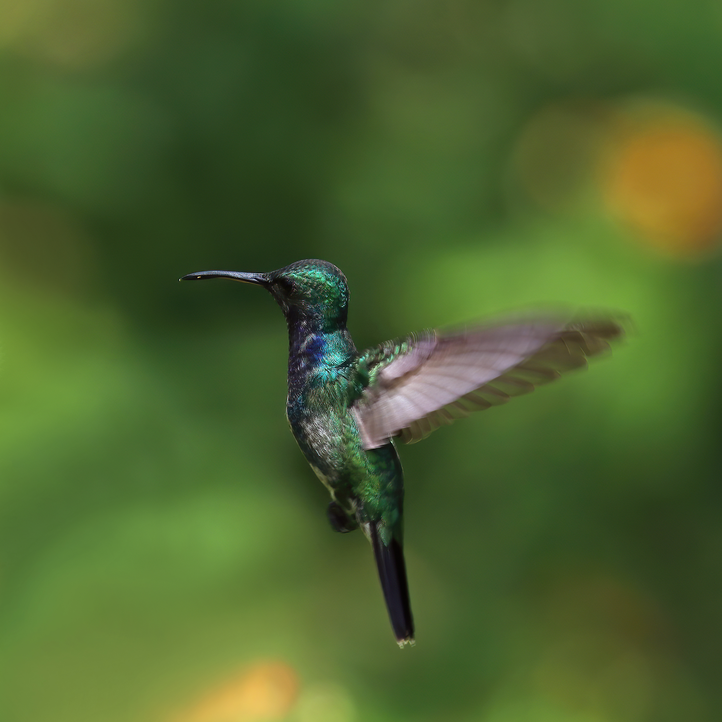 Sapphire-throated hummingbird (Lepidopyga coeruleogularis coeruleogularis) male in flight, Biodiversity Museum Gardens, Panama